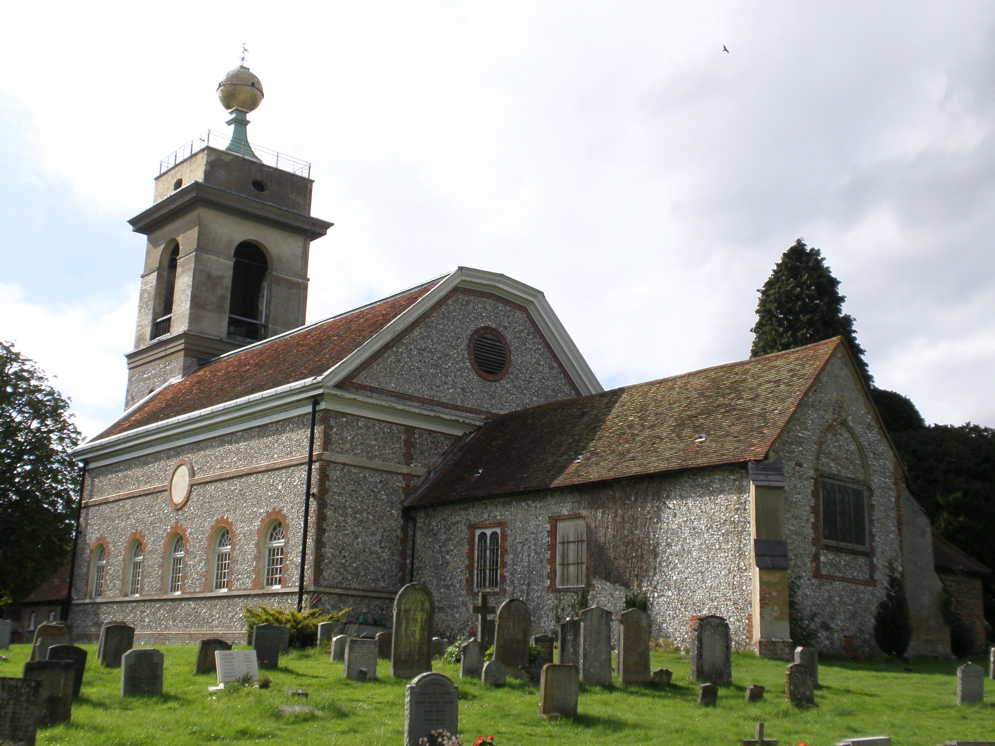 The 18th century Church of St. Lawrence, with its golden ball on the top of the hill, is a well-known landmark, visible for many miles due its hilltop location, visually dominating the village.